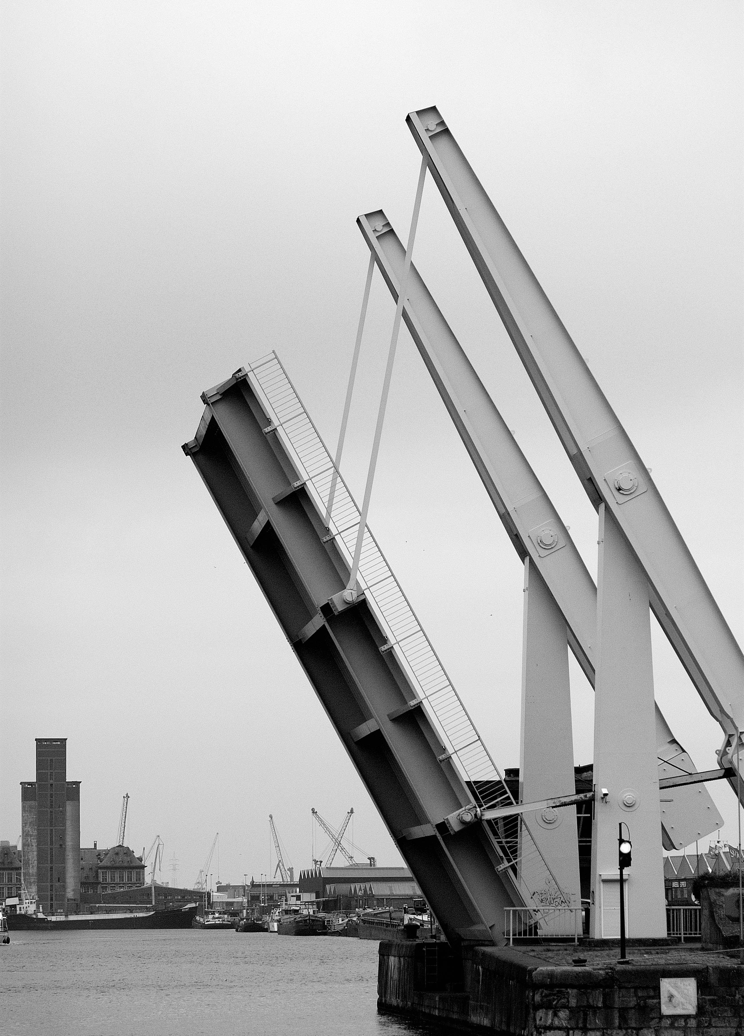 London Brigde in the port of Antwerp, Belgium.